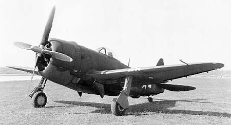 Republic XP-47K 3/4 front view (S/N 42-8702). (U.S. Air Force photo)